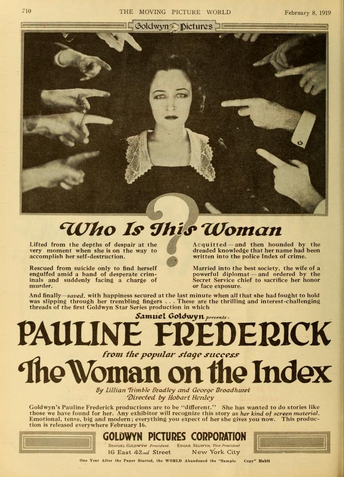 Advertisement in Moving Picture World for the American drama film The Woman on the Index (1919).